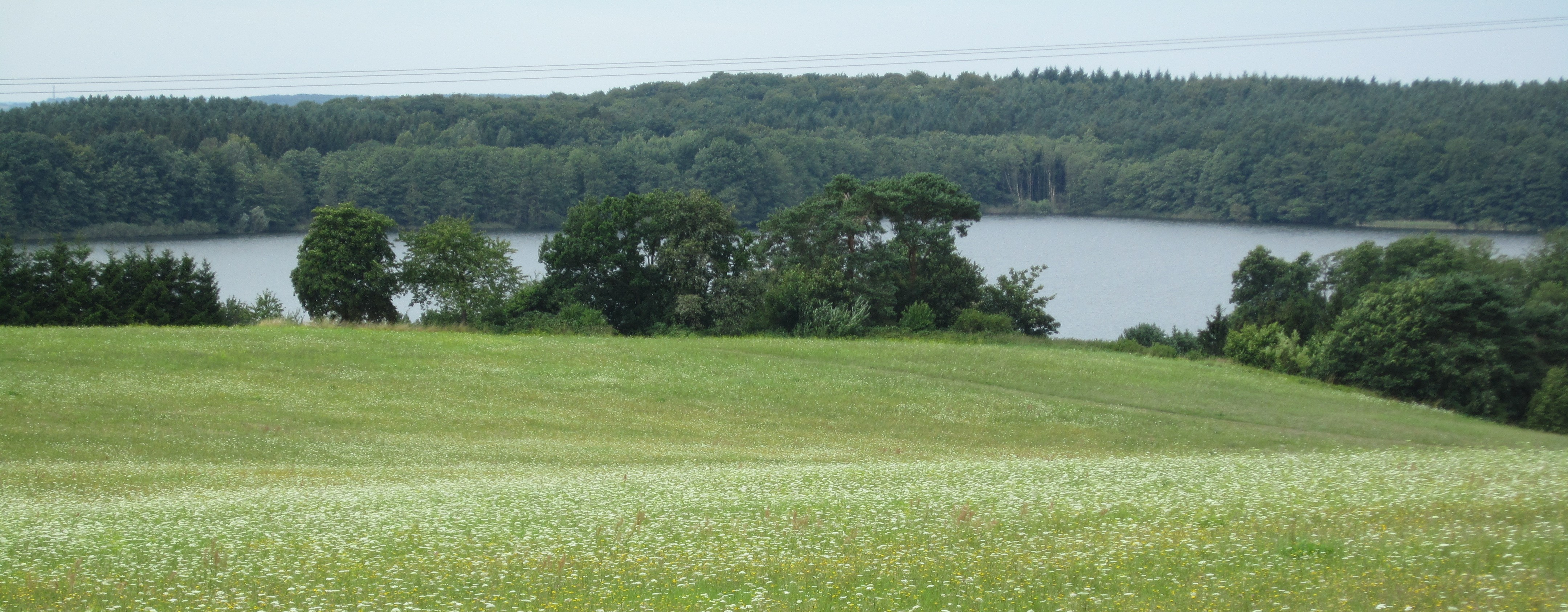 Lake Großer Krebssee on Usedom, viewed from Alt Sellenthin